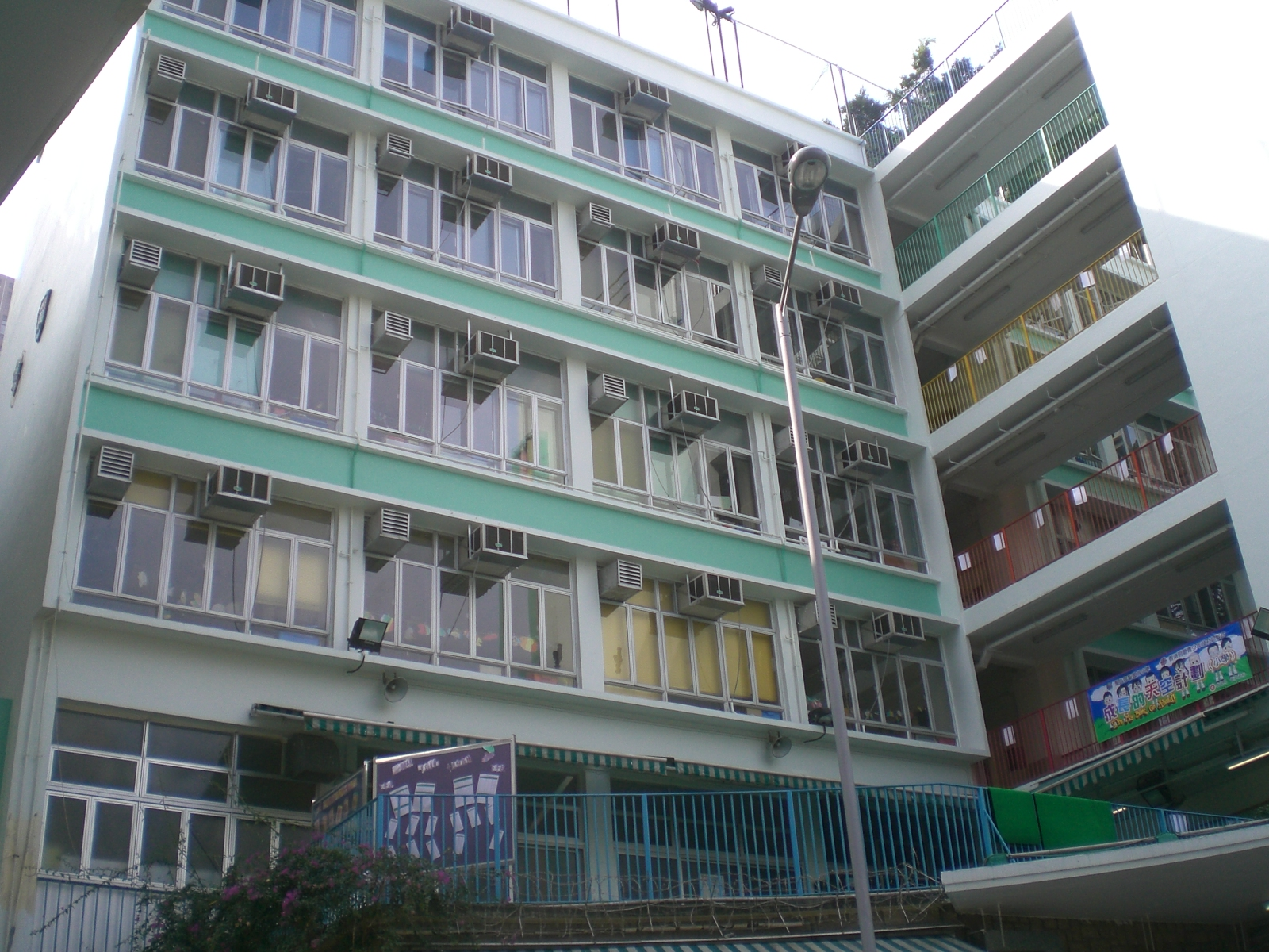 香港島山道 聖公會聖彼得小學